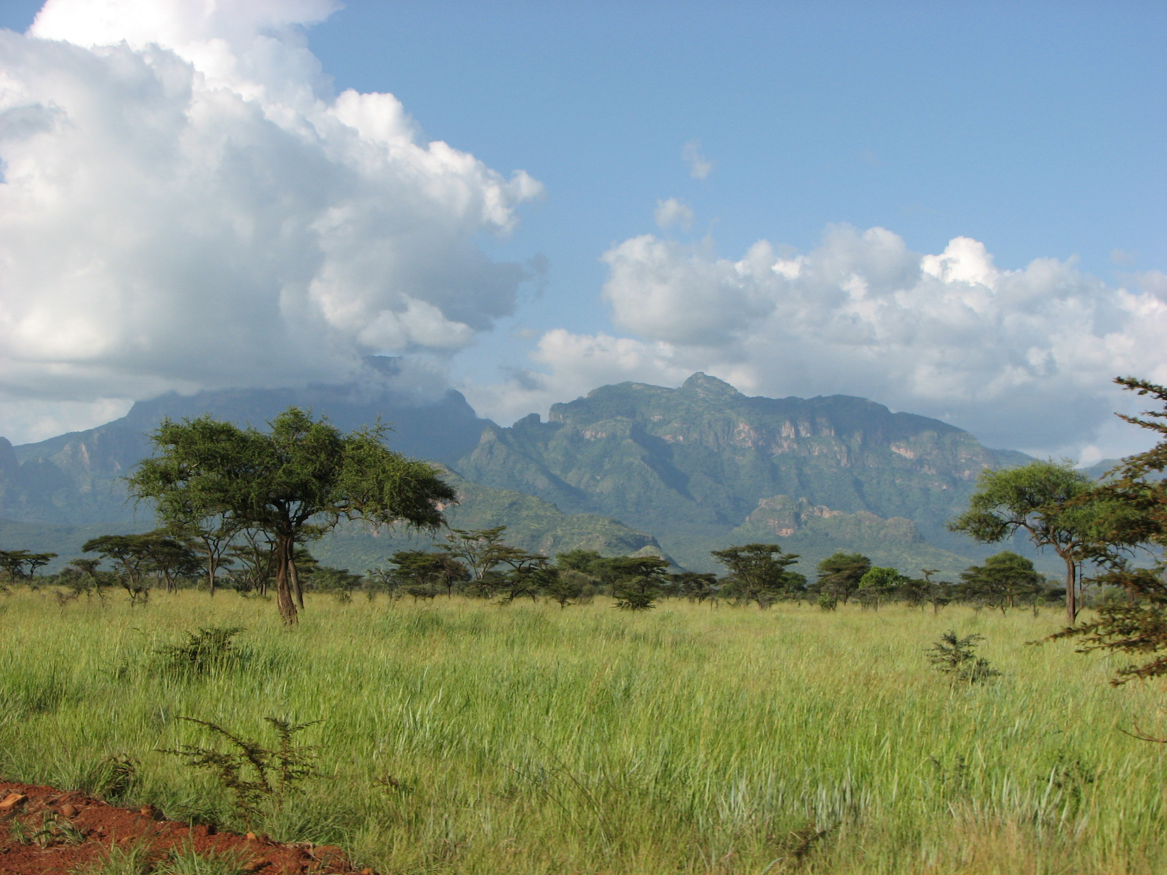 Mount Khadam, Uganda, by Ed Wright